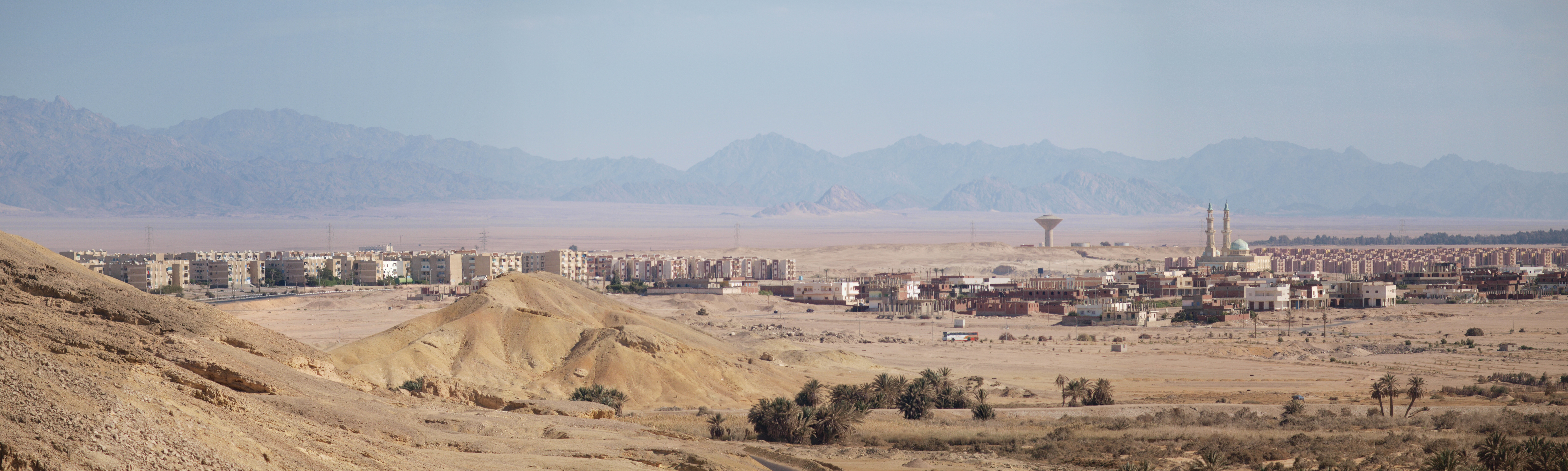 El-Tor. South Sinai. Egypt.